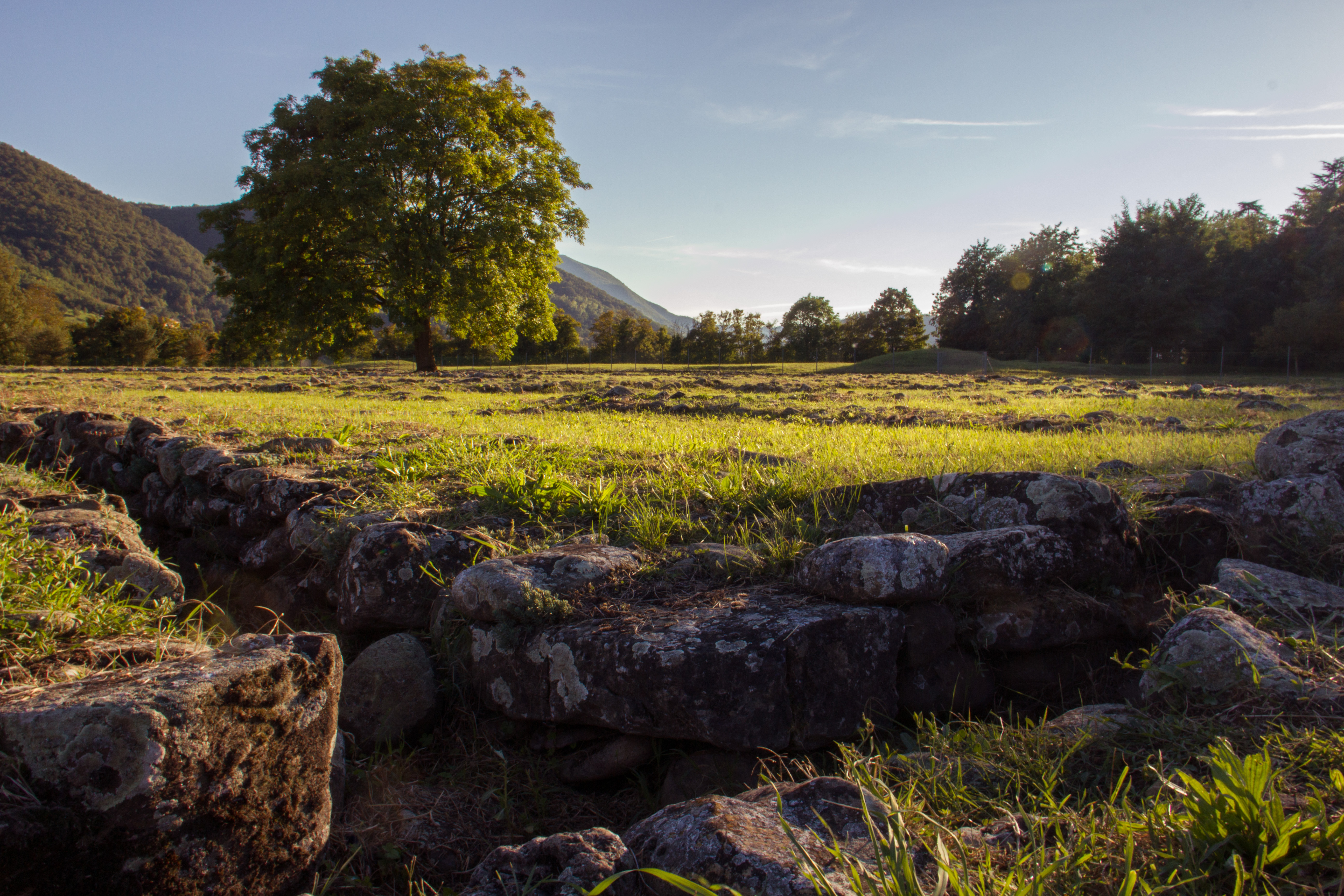 Sunset on the foundations of etruscan residential buildings, photographed from the corner where the gutters cross. This is a photo of a monument which is part of cultural heritage of Italy.